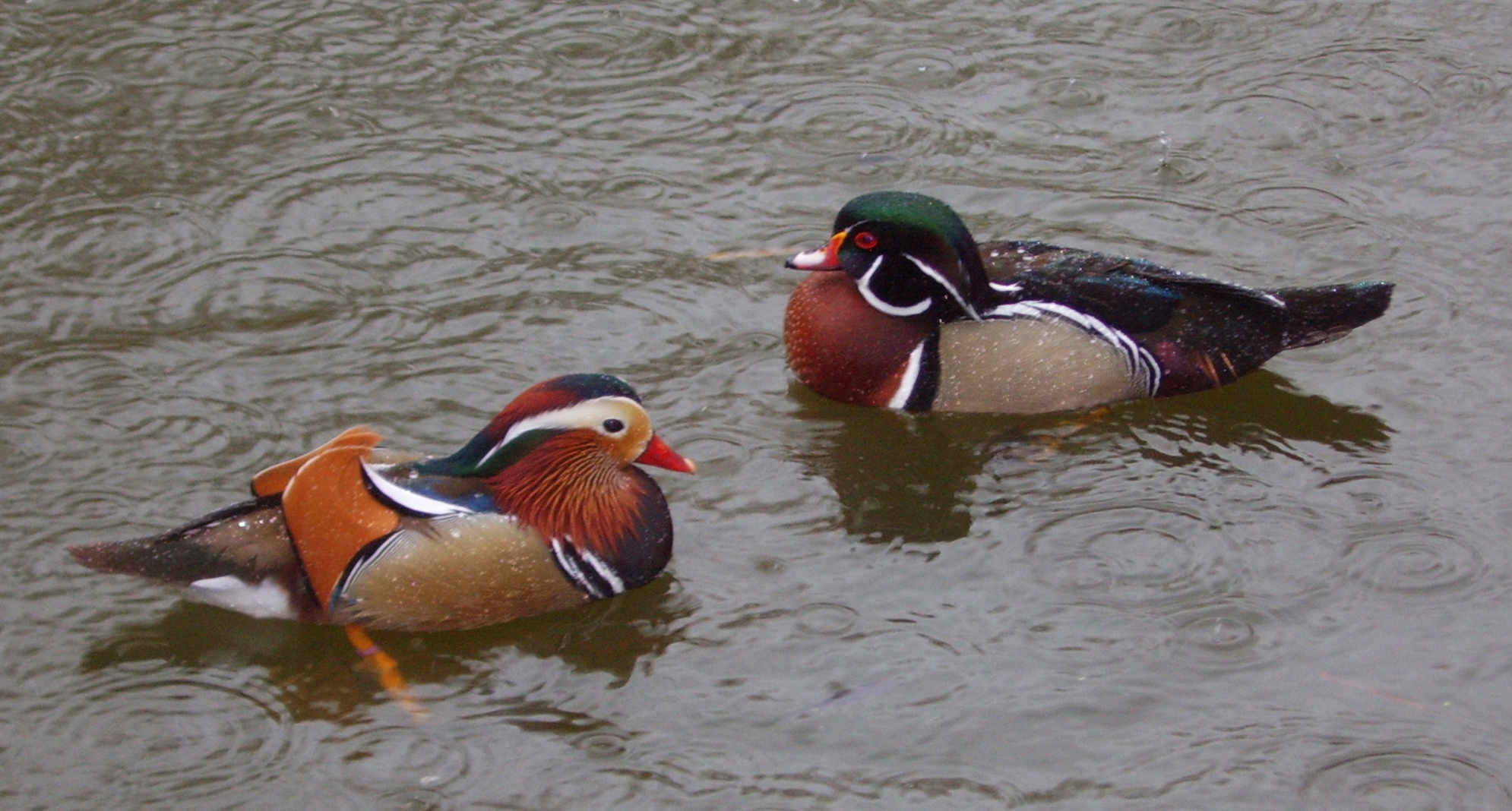 male Aix galericulata (left) and male Aix sponsa (right) in rain shower